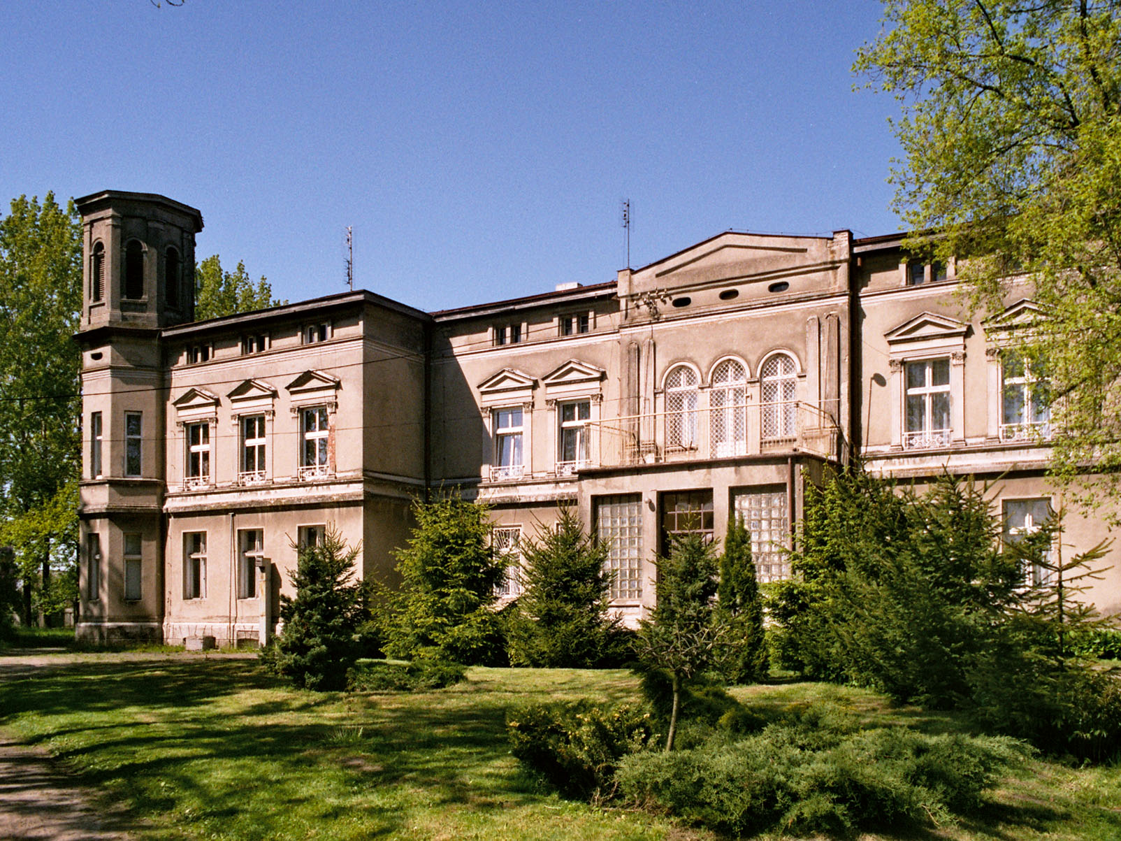 Lulkowo (Poland, Toruń county), manor house from end of 19th century